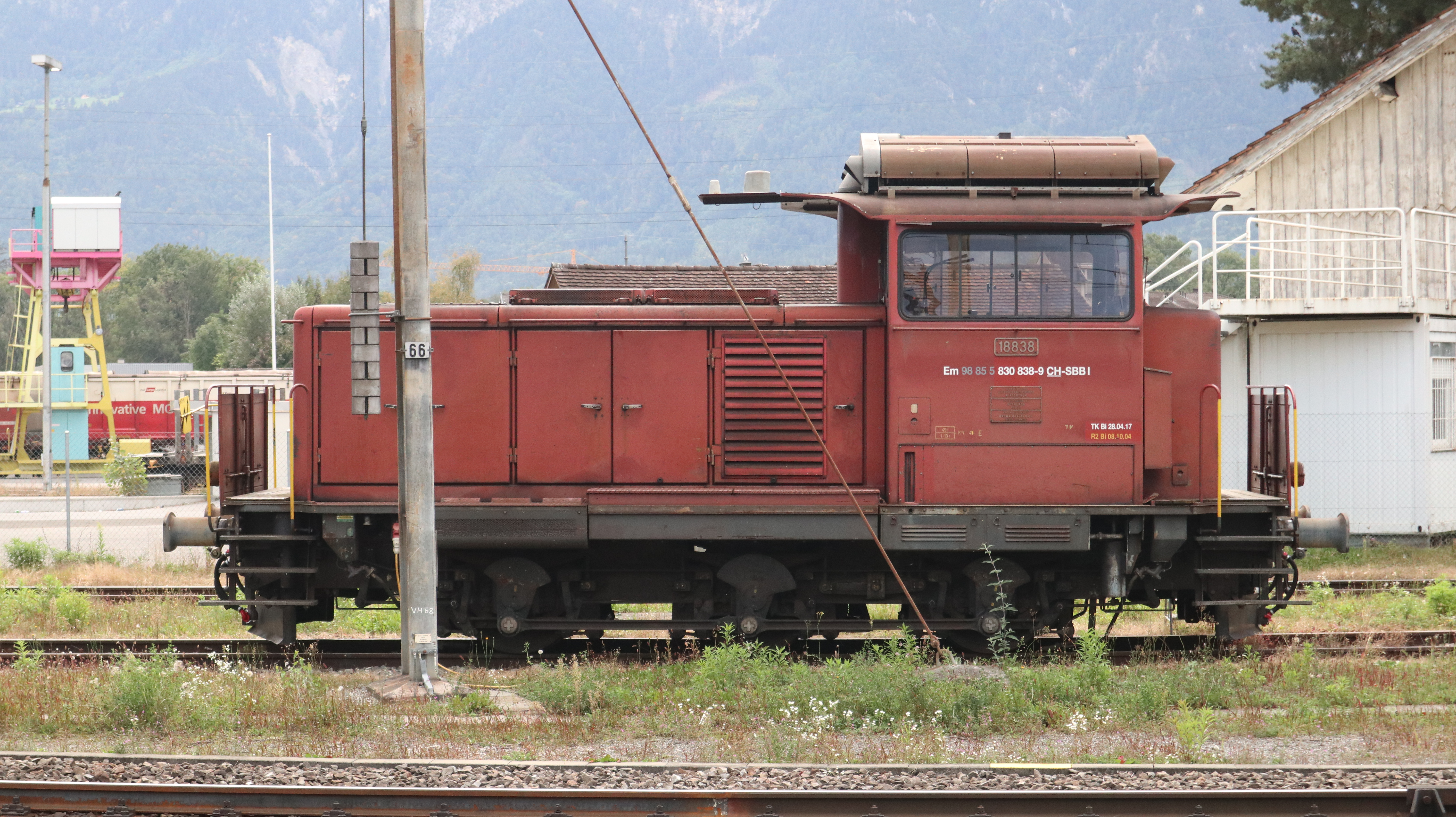 98 85 5 830 838-9 CH-SBBI (Em 3/3 18838) of SBB CFF FFS Infrastructure at Buchs SG